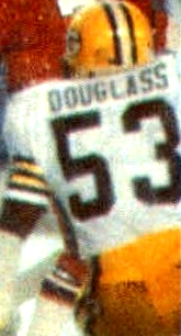 Green Bay Packers linebacker Mike Douglass pictured in a defensive play against the Denver Broncos during an October 15, 1984 away game at Mile High Stadium.